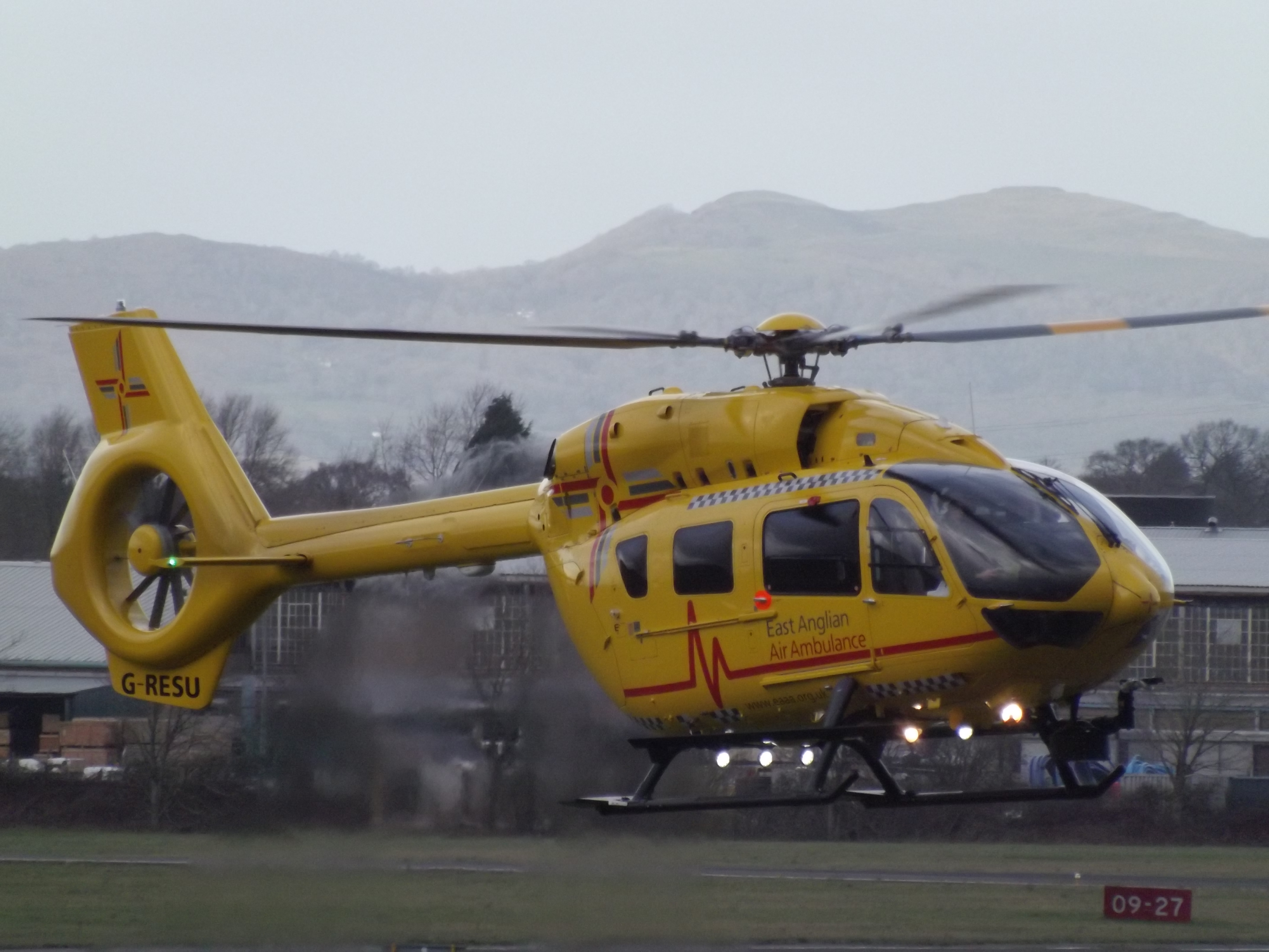 At Gloucestershire Airport.